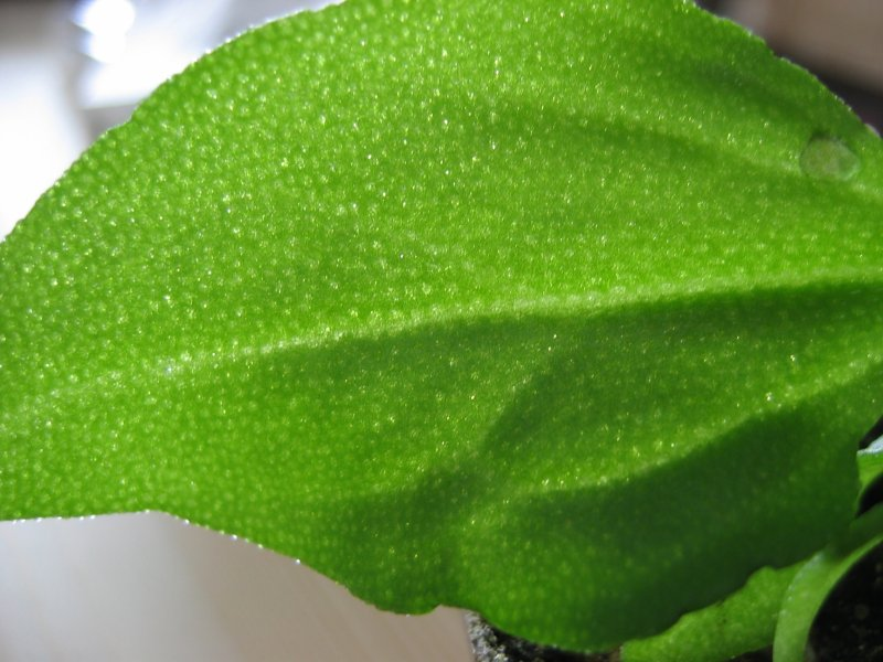 Blatt von Mesembryanthemum crystallinum